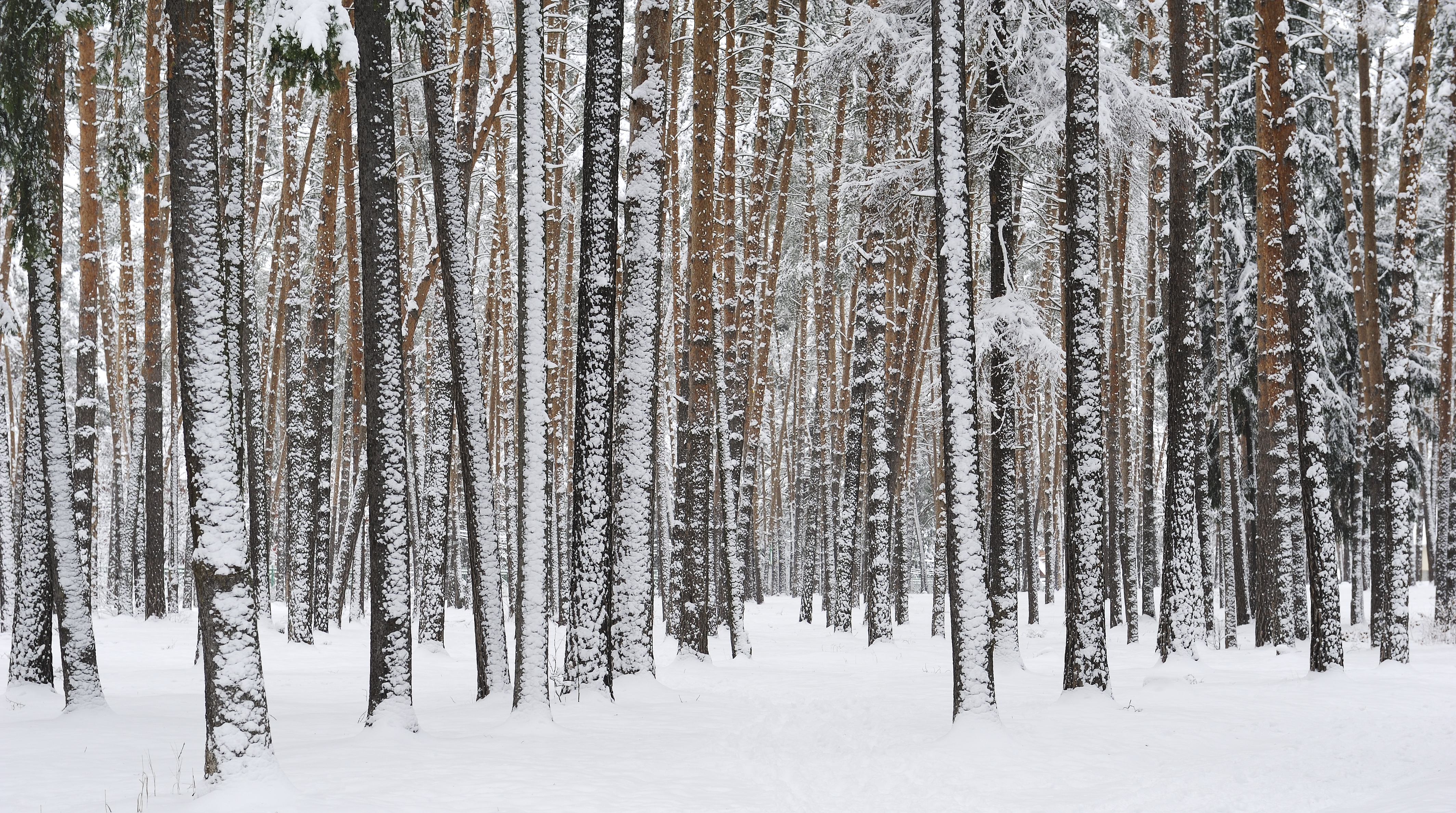 Russia. Moscow Region. Ramensky area, Winter pine wood, lake Kratovskoe area